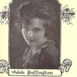 Photo of Adele Buffington in 1922